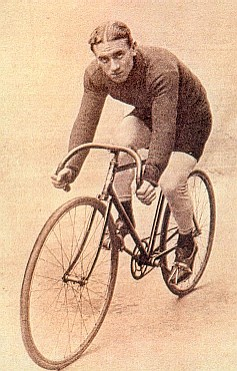 Philippe Thys, Belgian cyclist